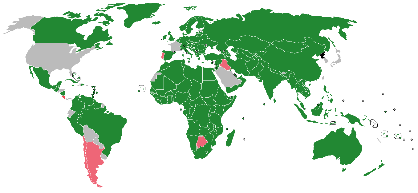 dark green - diplomatic relations; red - diplomatic relations terminated Other information Based on File:World map model.png.